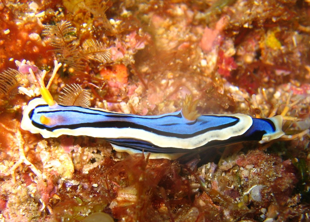 Elizabeth's Chromodoris (Chromodoris elisabethina). Flat Rock, North Stradbroke, Queensland